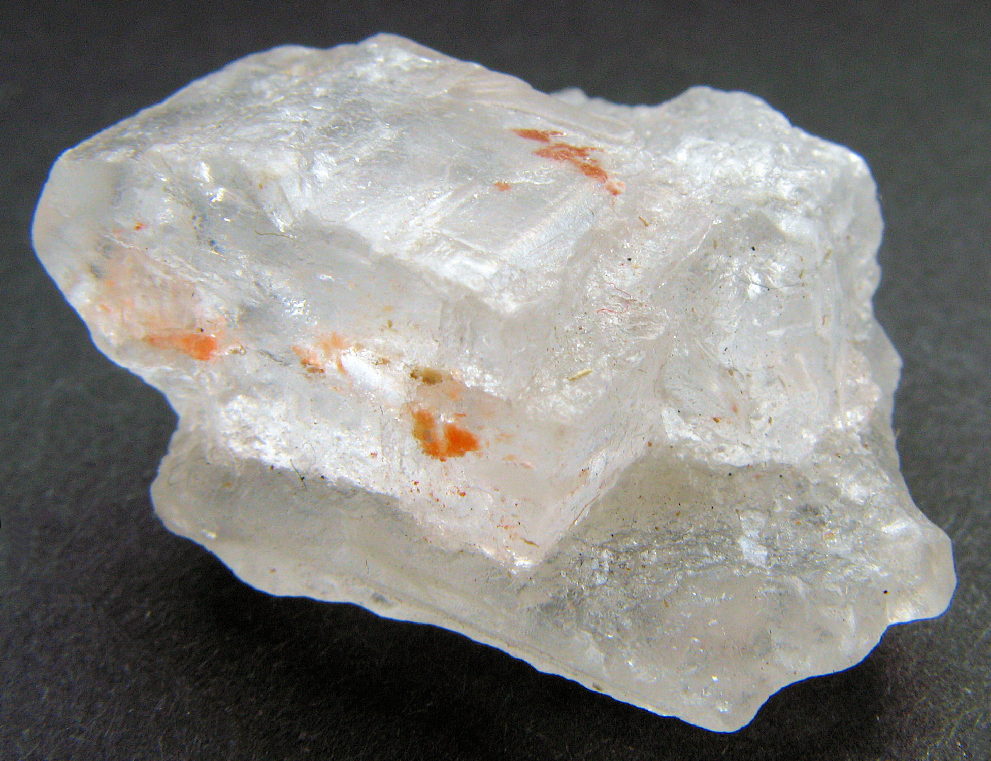 Halite crystal with orange inclusions